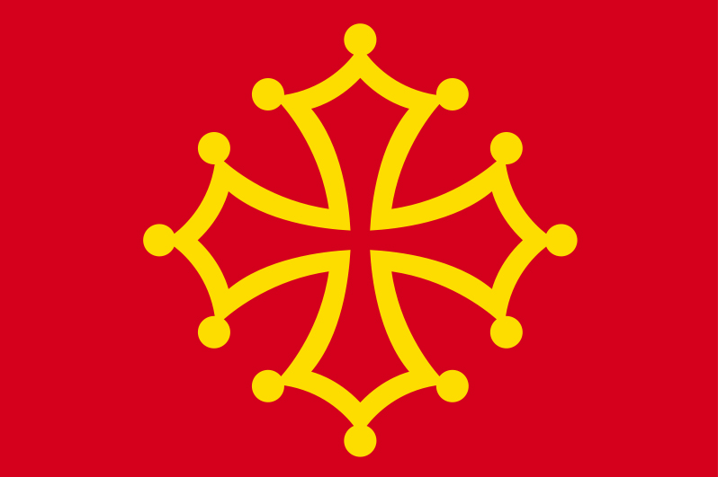 De facto flag of Occitania (France)